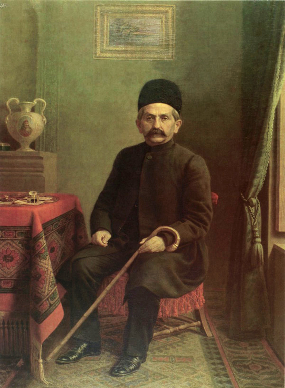 Sardar assad bakhtiary by kamal ol molk